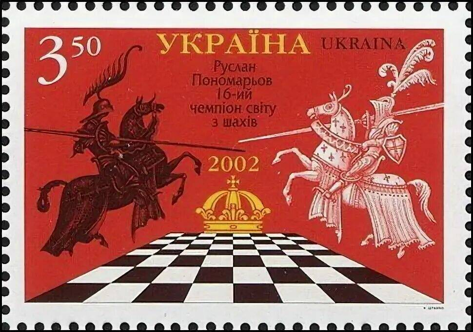 Stamp of Ukraine